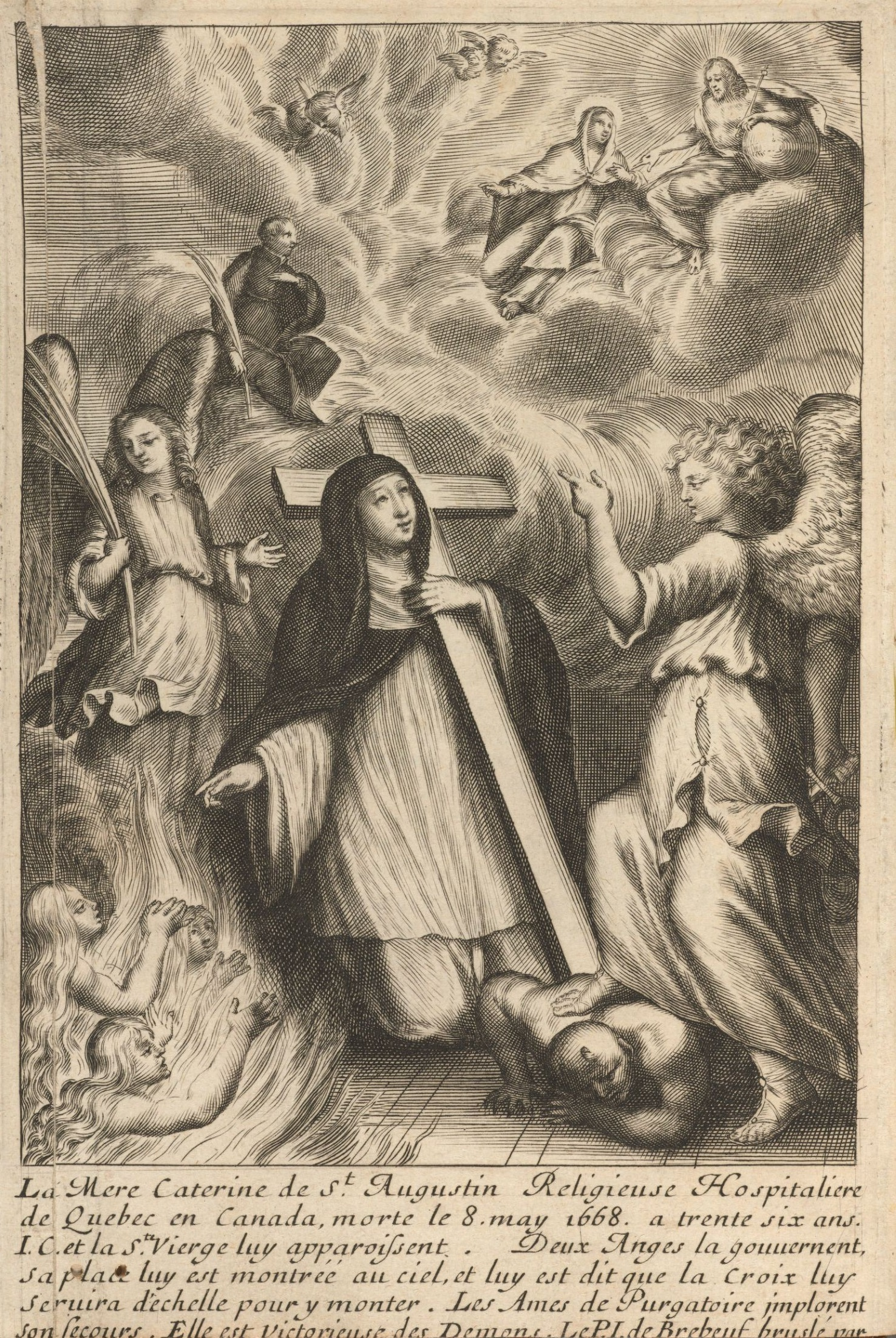 Illustration from La vie de la mere Catherine de Saint Augustin, Paris: 1671, by Paul Ragueneau (1608-1680). *FC6.R1286.671v, Houghton Library, Harvard University